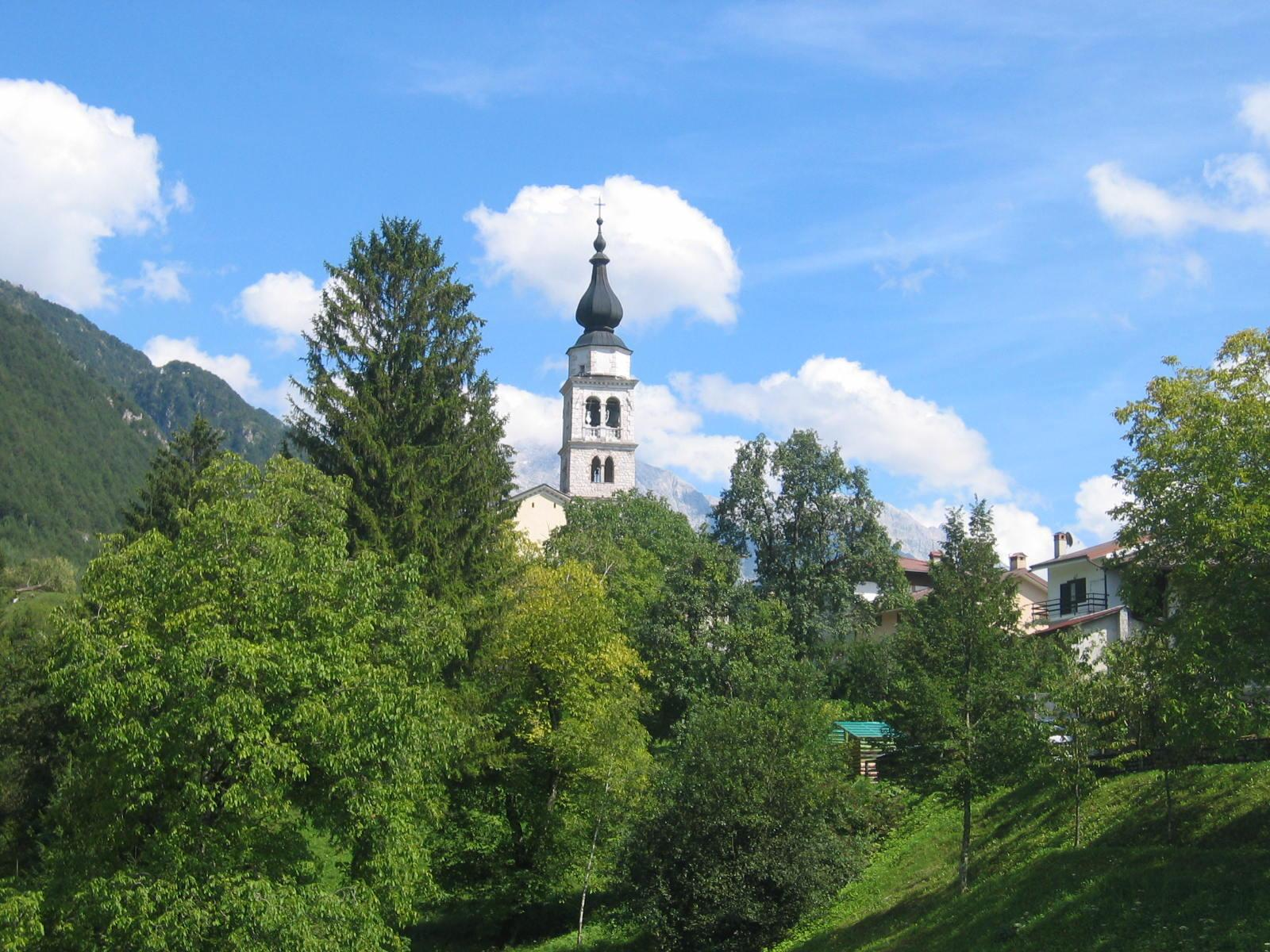 Val Resia (slovene: Rezija), alpine valley in notheast Italy photo:Ziga 08:20, 9 February 2007 (UTC)